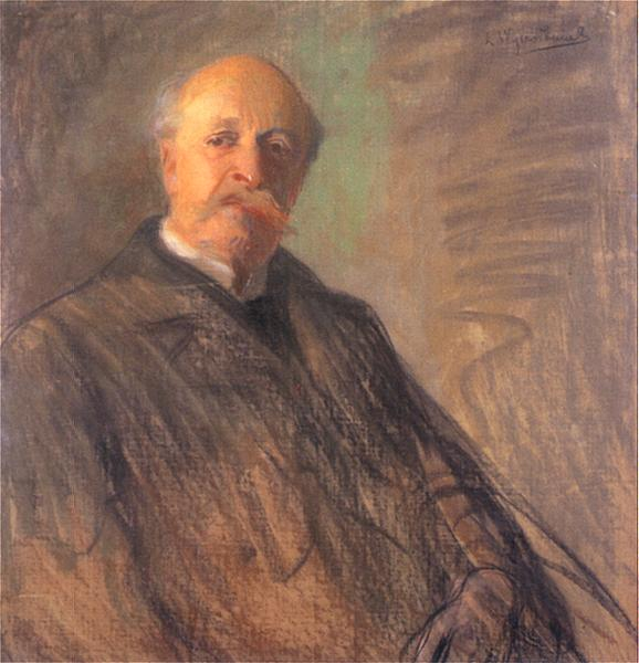 Portrait of Juliusz Kossak, pastel, 90 x 95 cm, The National Museum, Kraków, Poland.